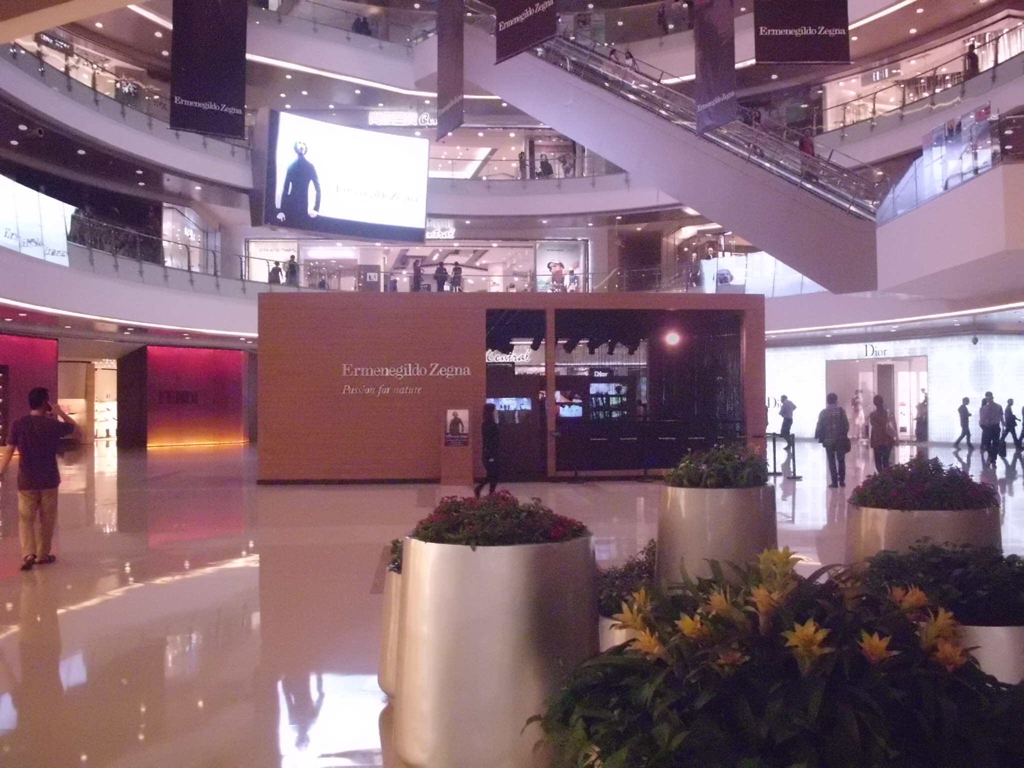 hzmixc